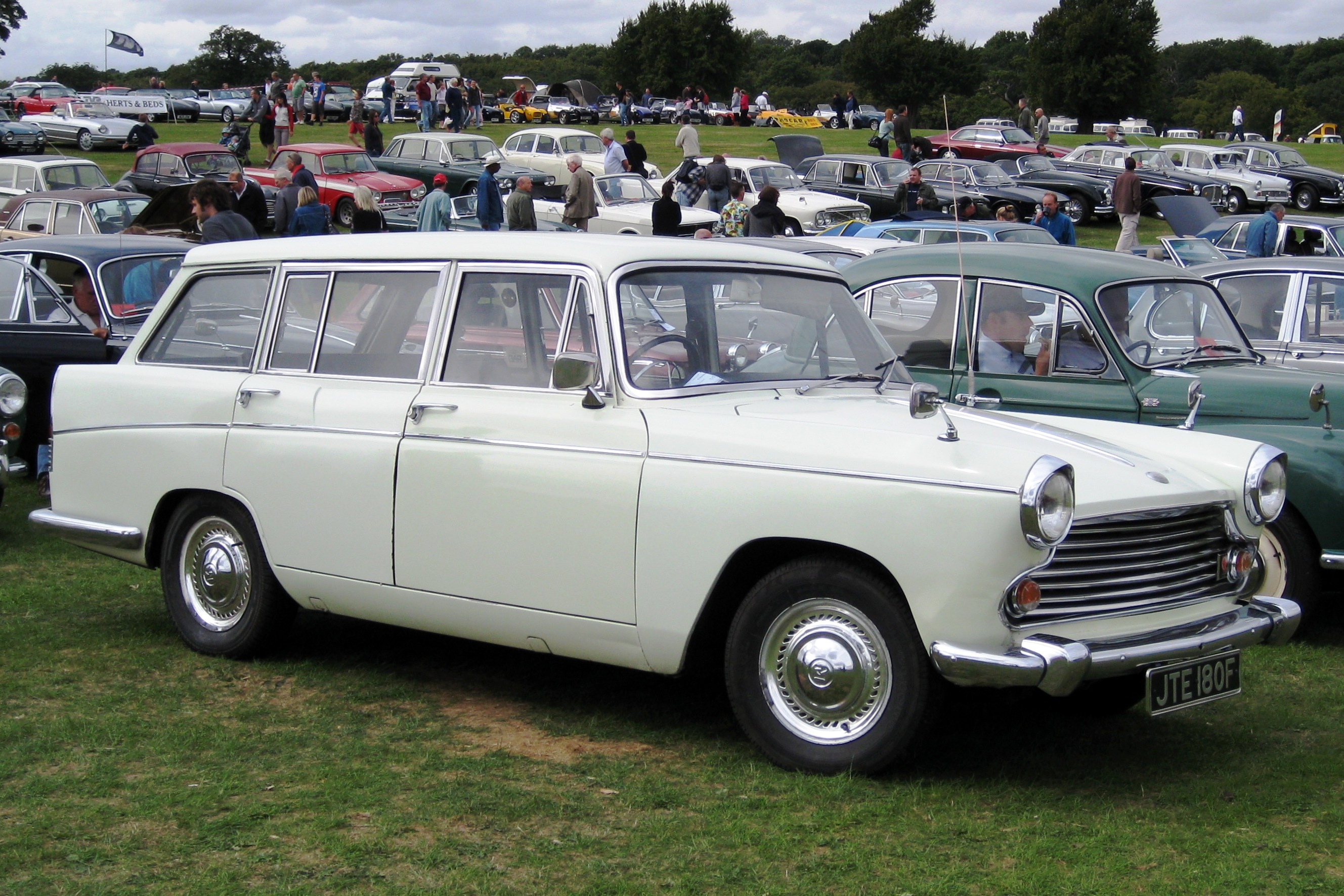 Morris Oxford Traveller 1968